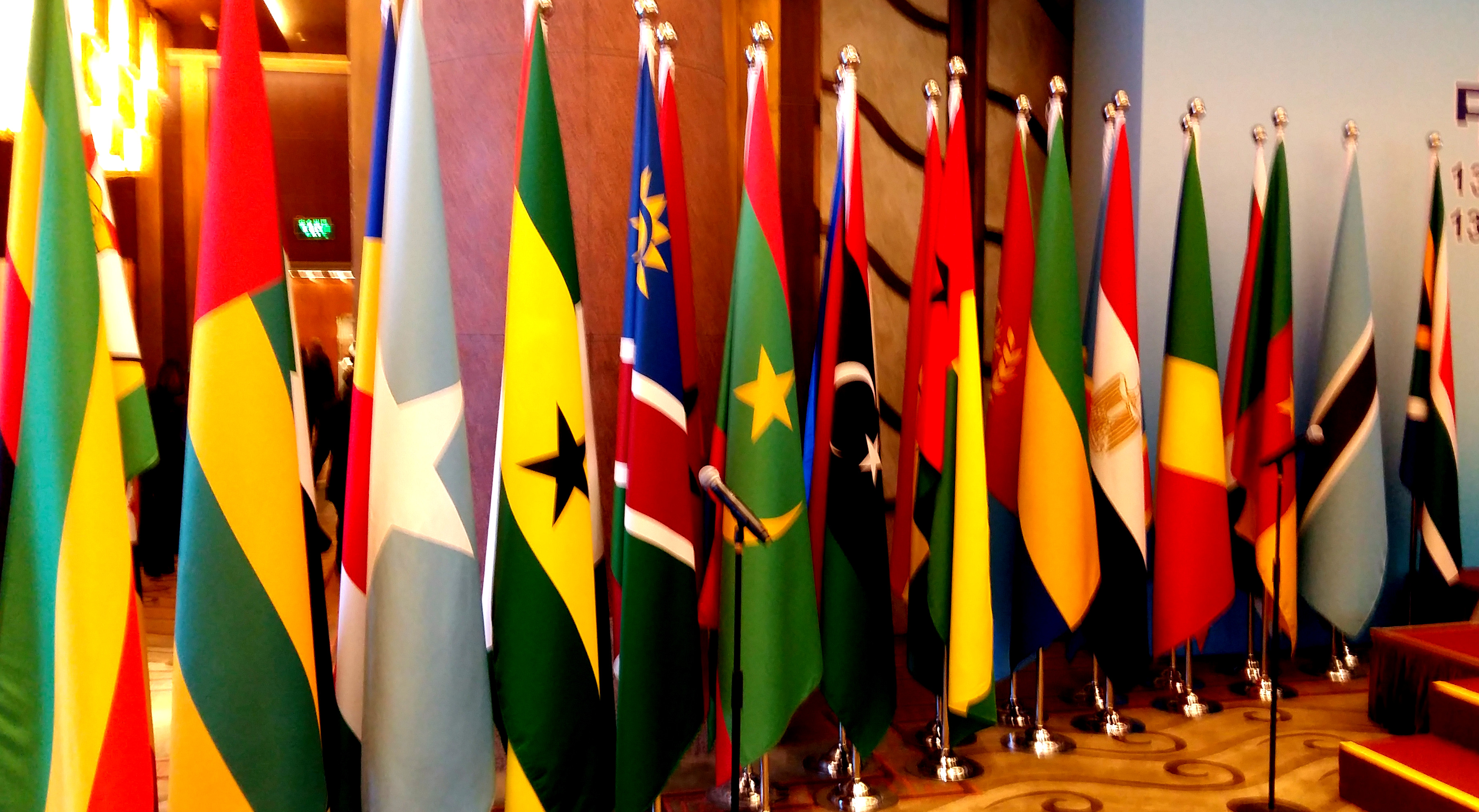 African flags at a FOCAC meeting venue in Beijing